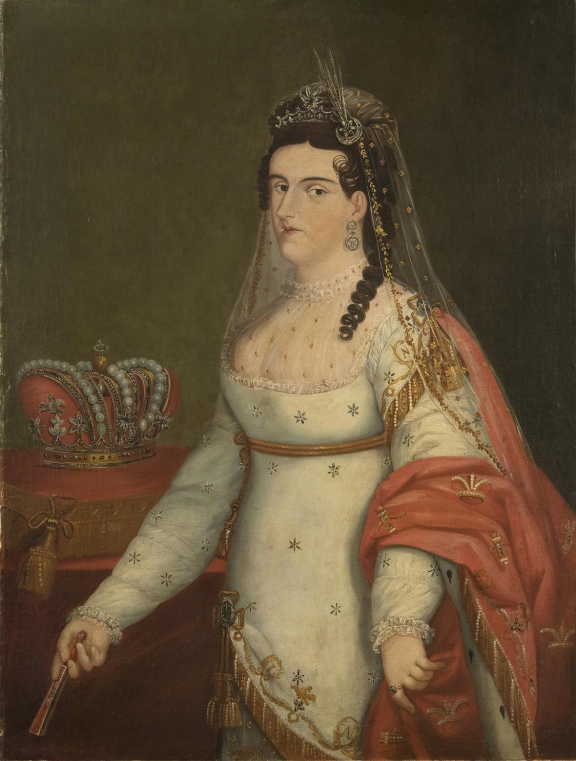 Portrait of Mexican Empress Ana María, consort of Agustín I